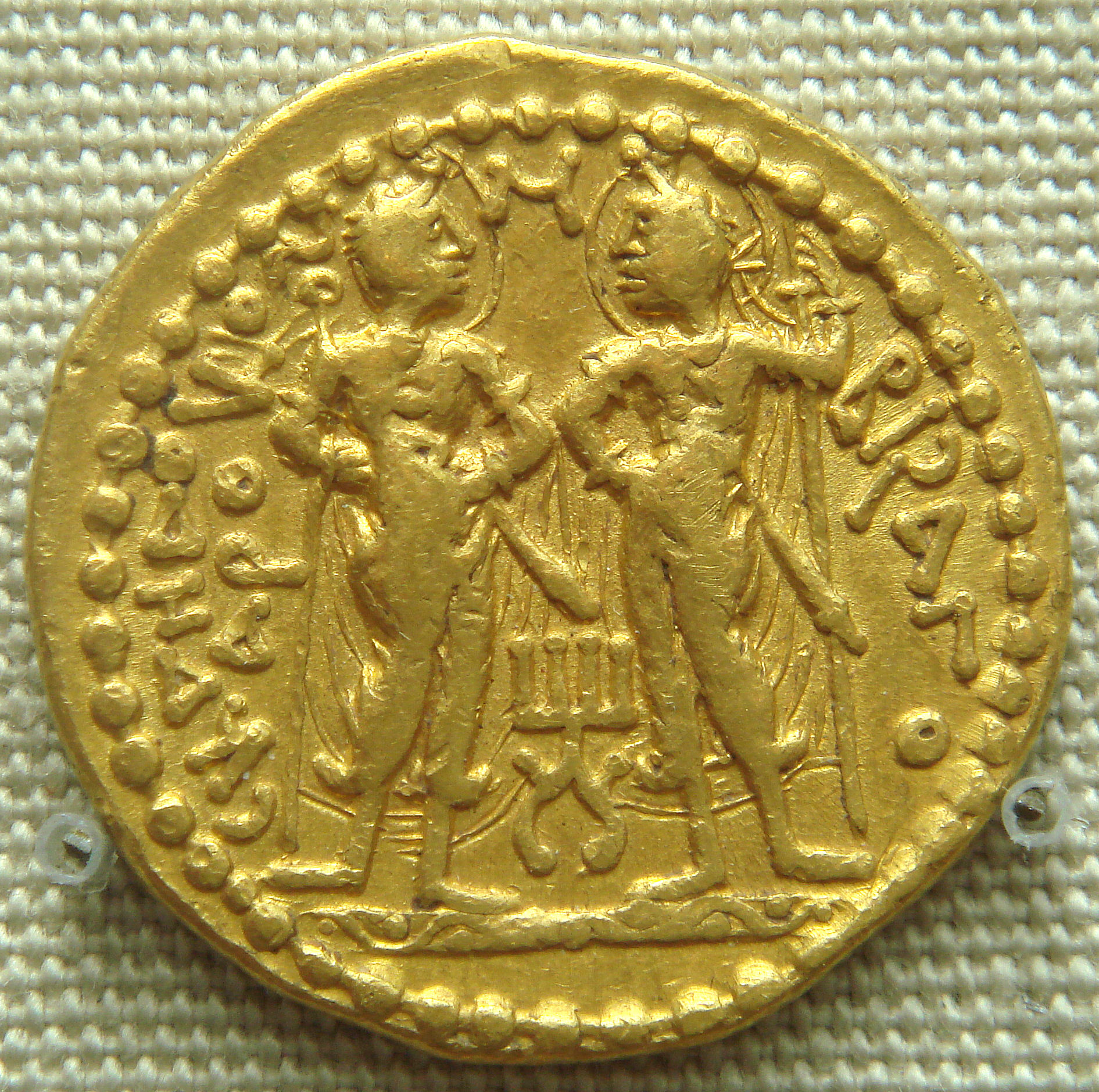 Reverse of gold coin of Huvishka. Skanda and Visakha on reverse.